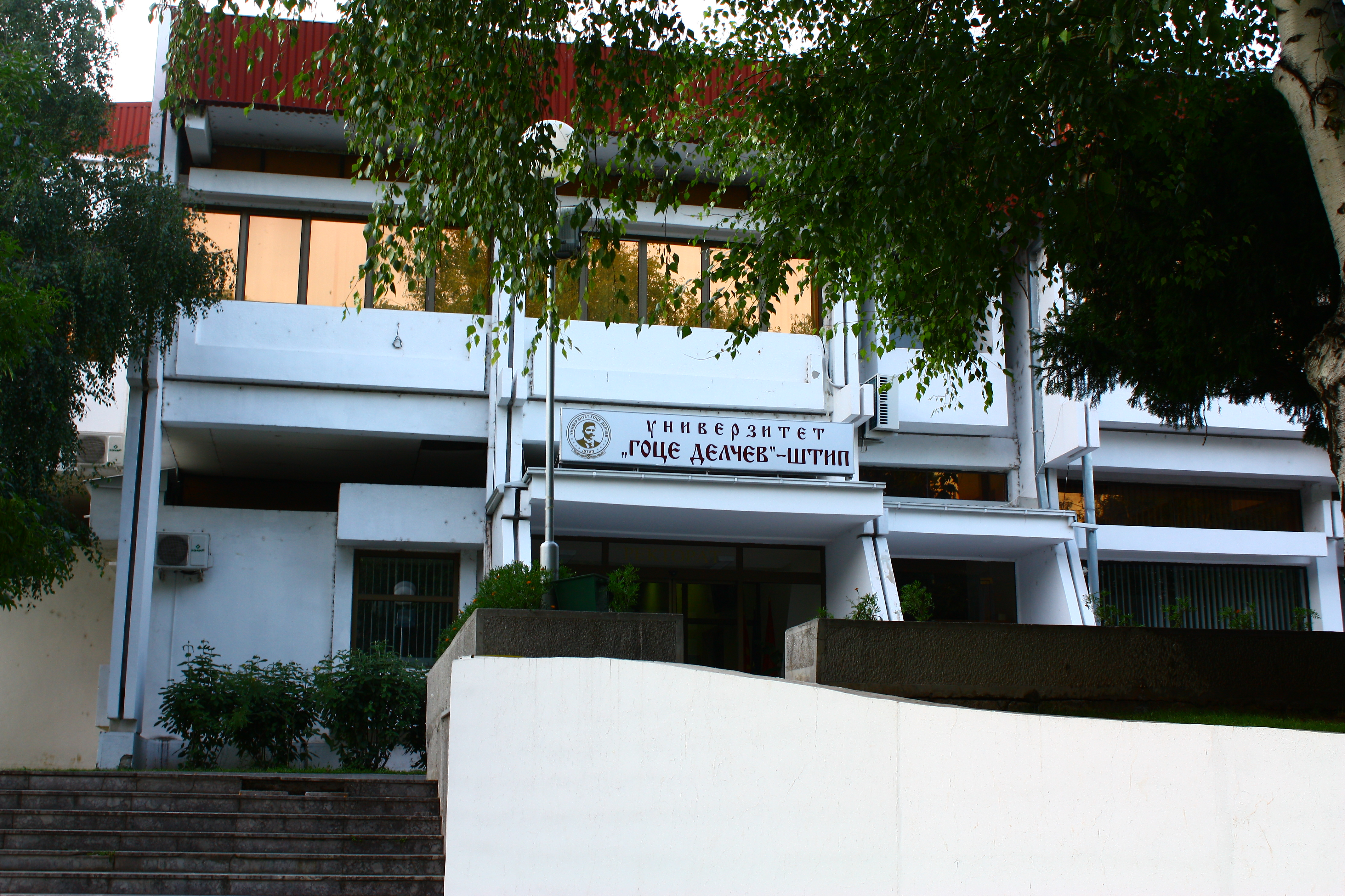 Goce Delčev University in Štip, Macedonia